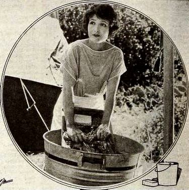 Still from the American film Conquering the Woman (1922) with Florence Vidor, on page 194 of the December 23, 1922 Exhibitor's Trade Review.